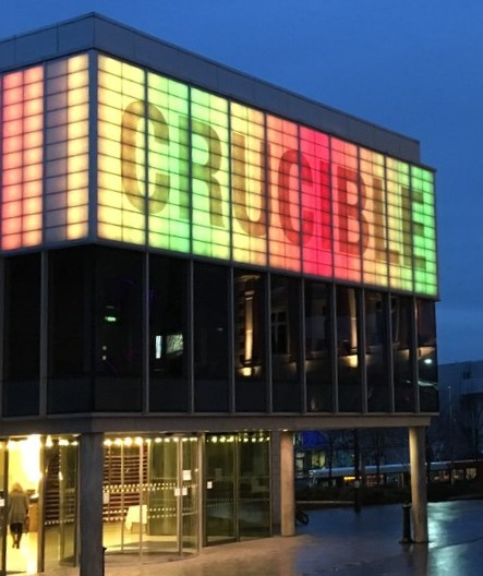 Cropped image of Sheffield's Crucible Theatre at night